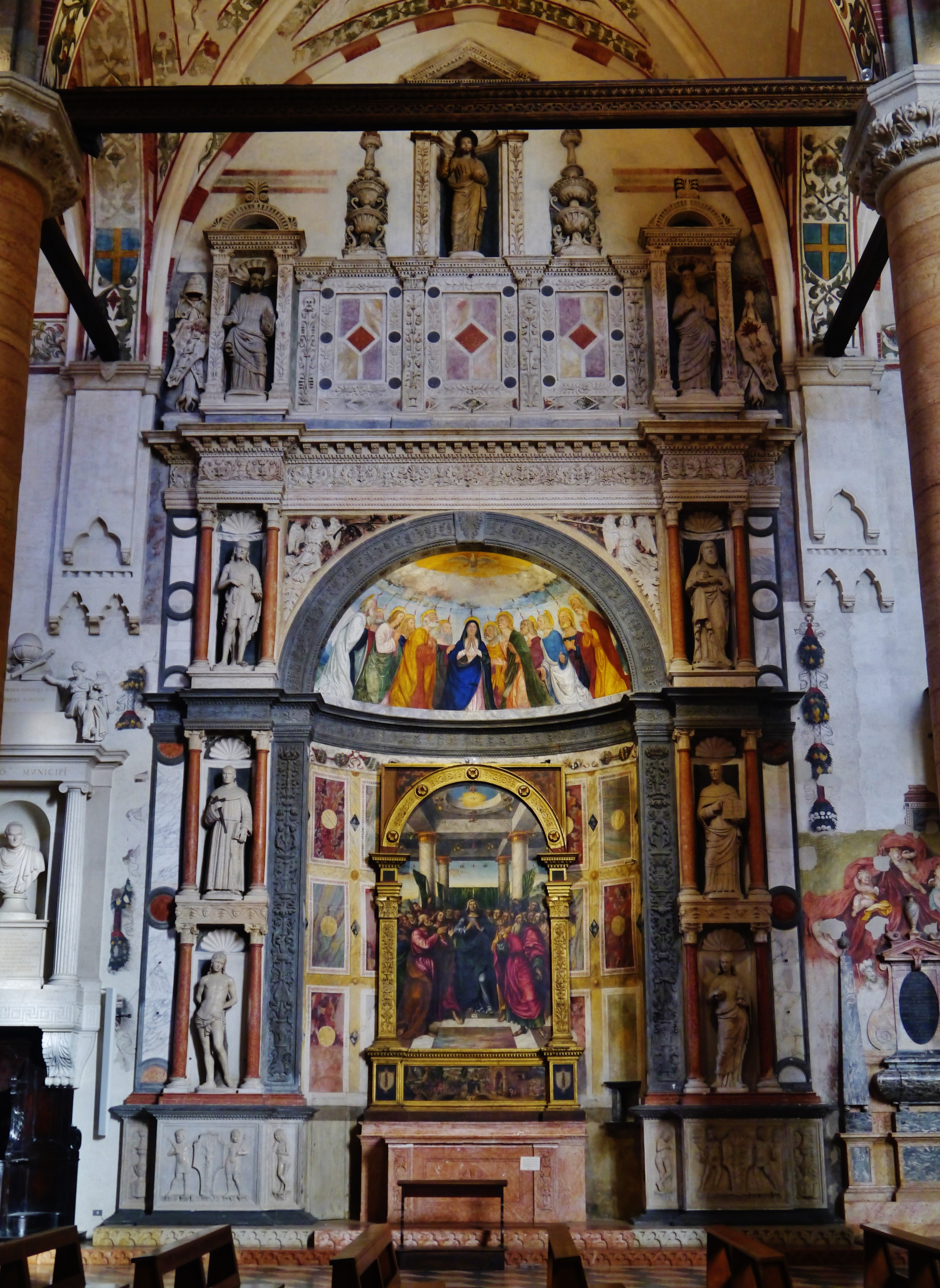 Miniscalchi Altar of the Church of St. Anastasia, Verona, Province of Verona, Region of Veneto, Italy